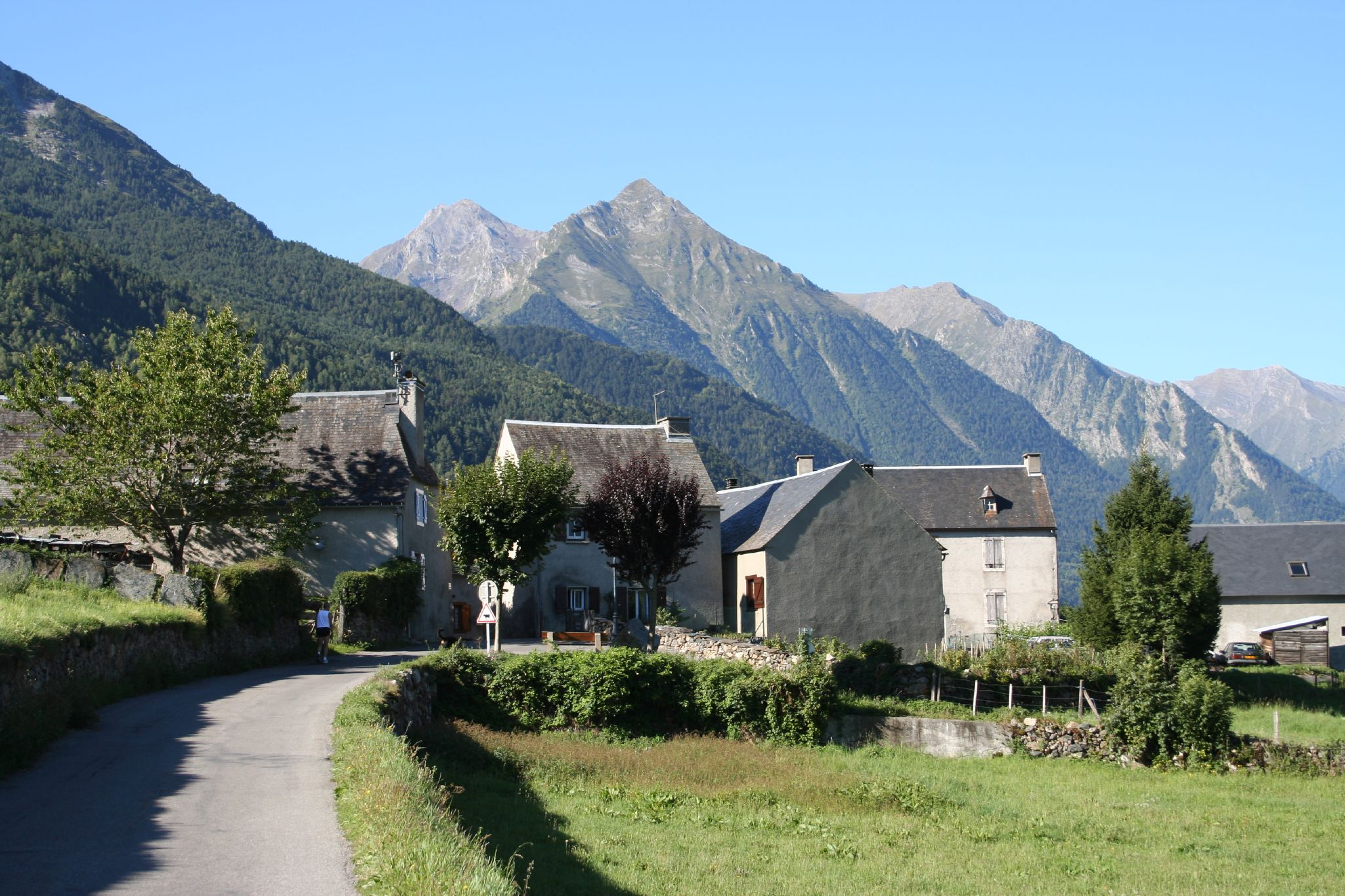 Saint Lary to Luchon over the cols d'Azet and Peyresourde involving 1393 metres vertical ascent.